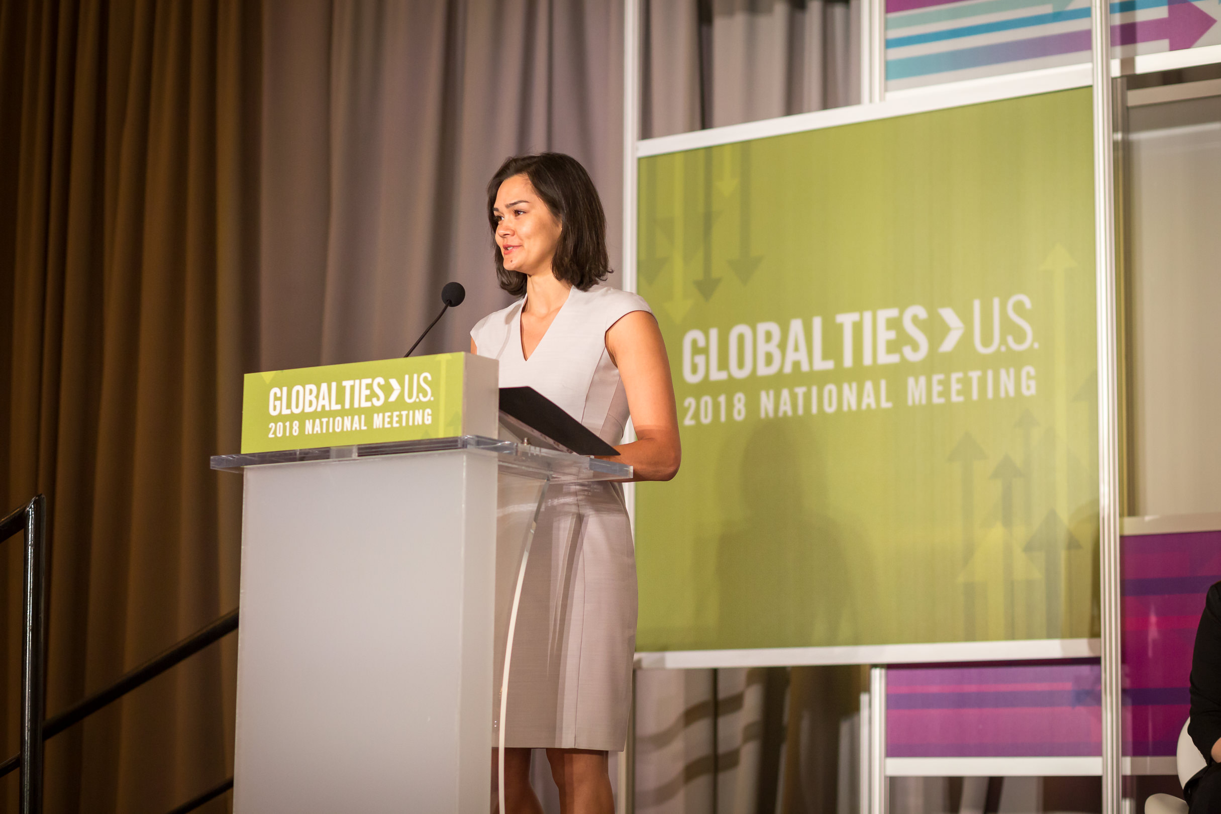 Assistant Secretary of State for Public Affairs Michelle Giuda delivers remarks at the 2018 Global Ties Meeting in Washington, D.C.